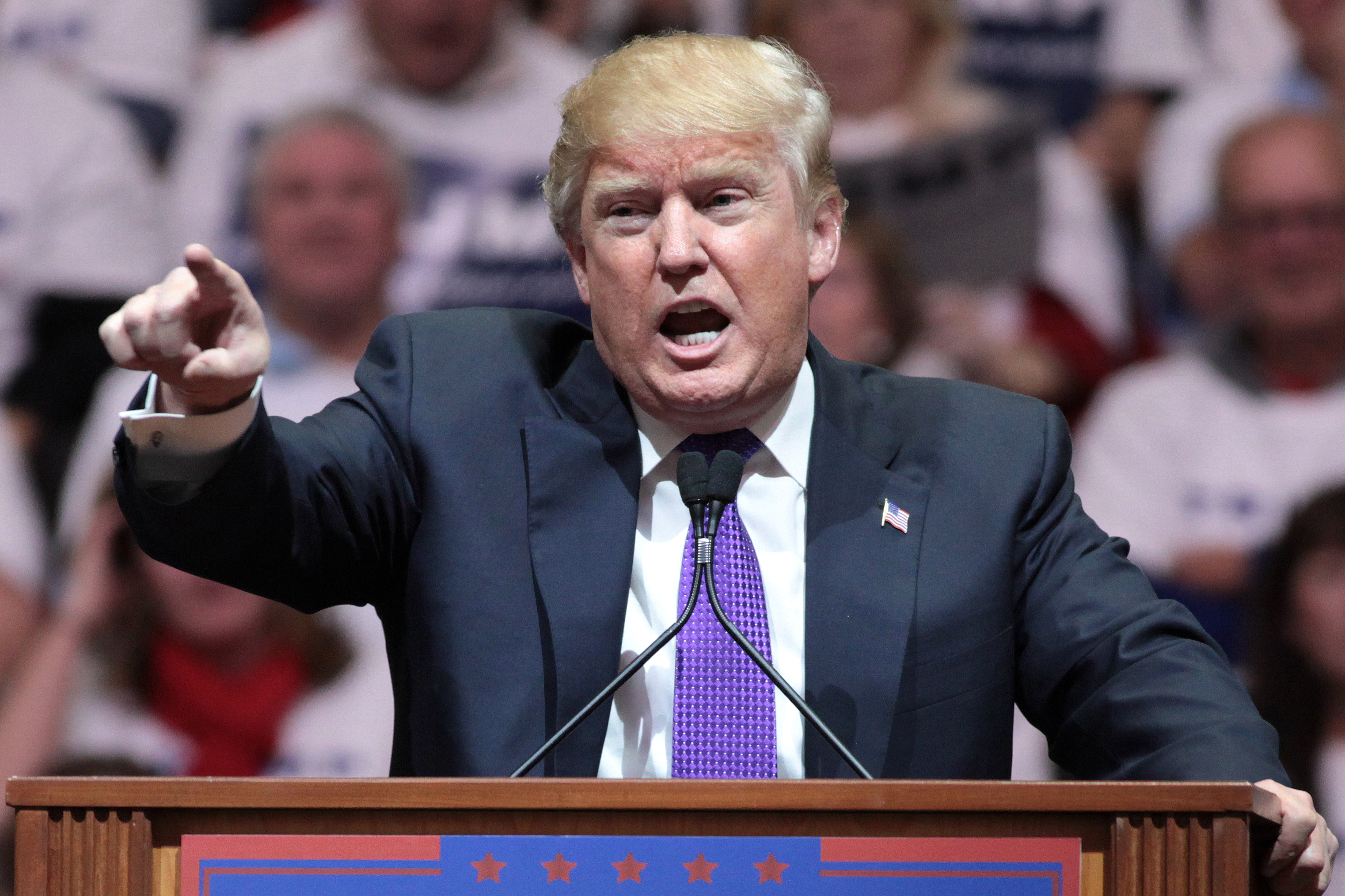 Donald Trump speaking with supporters at a campaign rally at the South Point Arena in Las Vegas, Nevada.